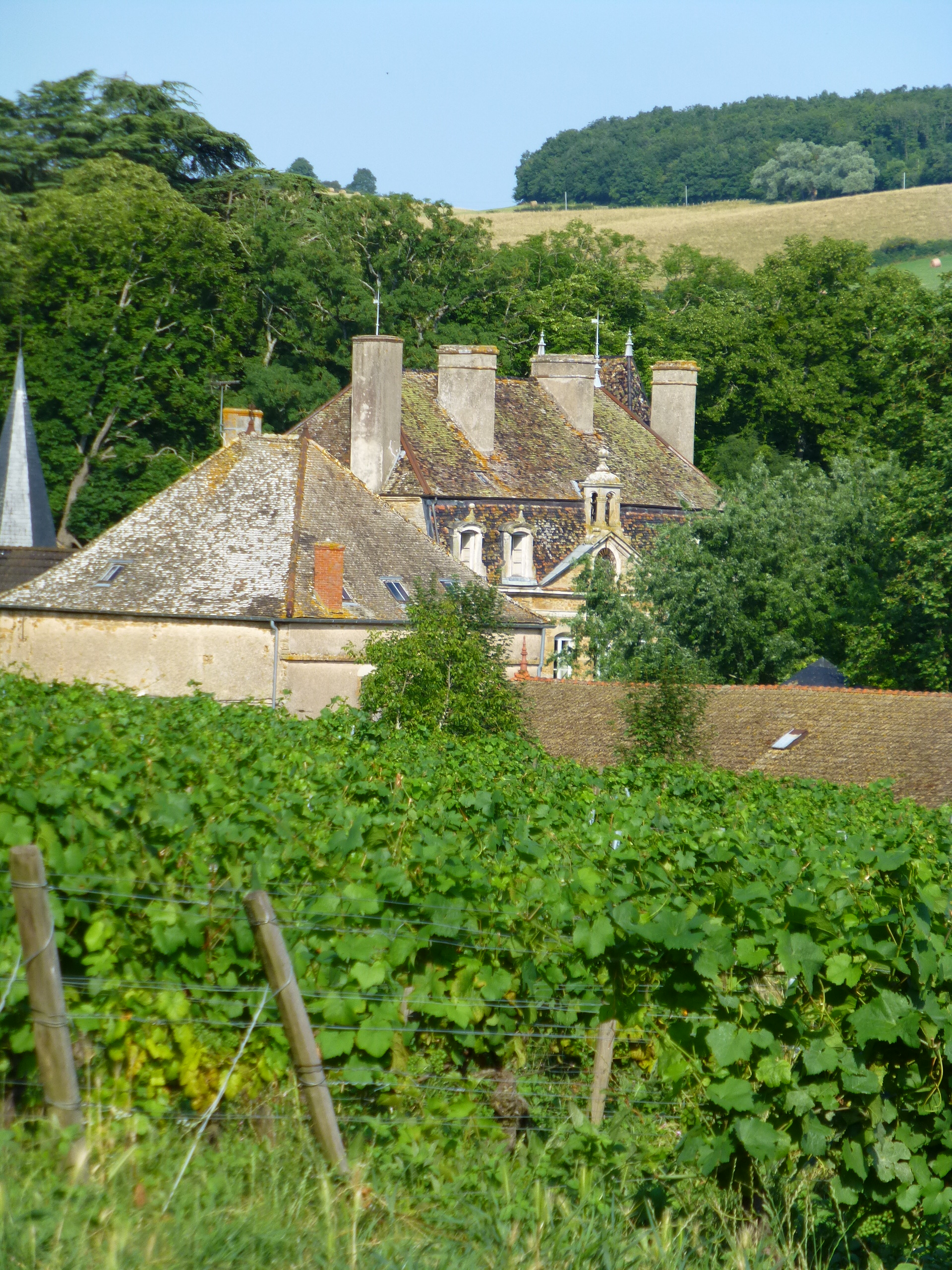 Sassangy castle in Saône-et-Loire (summer)